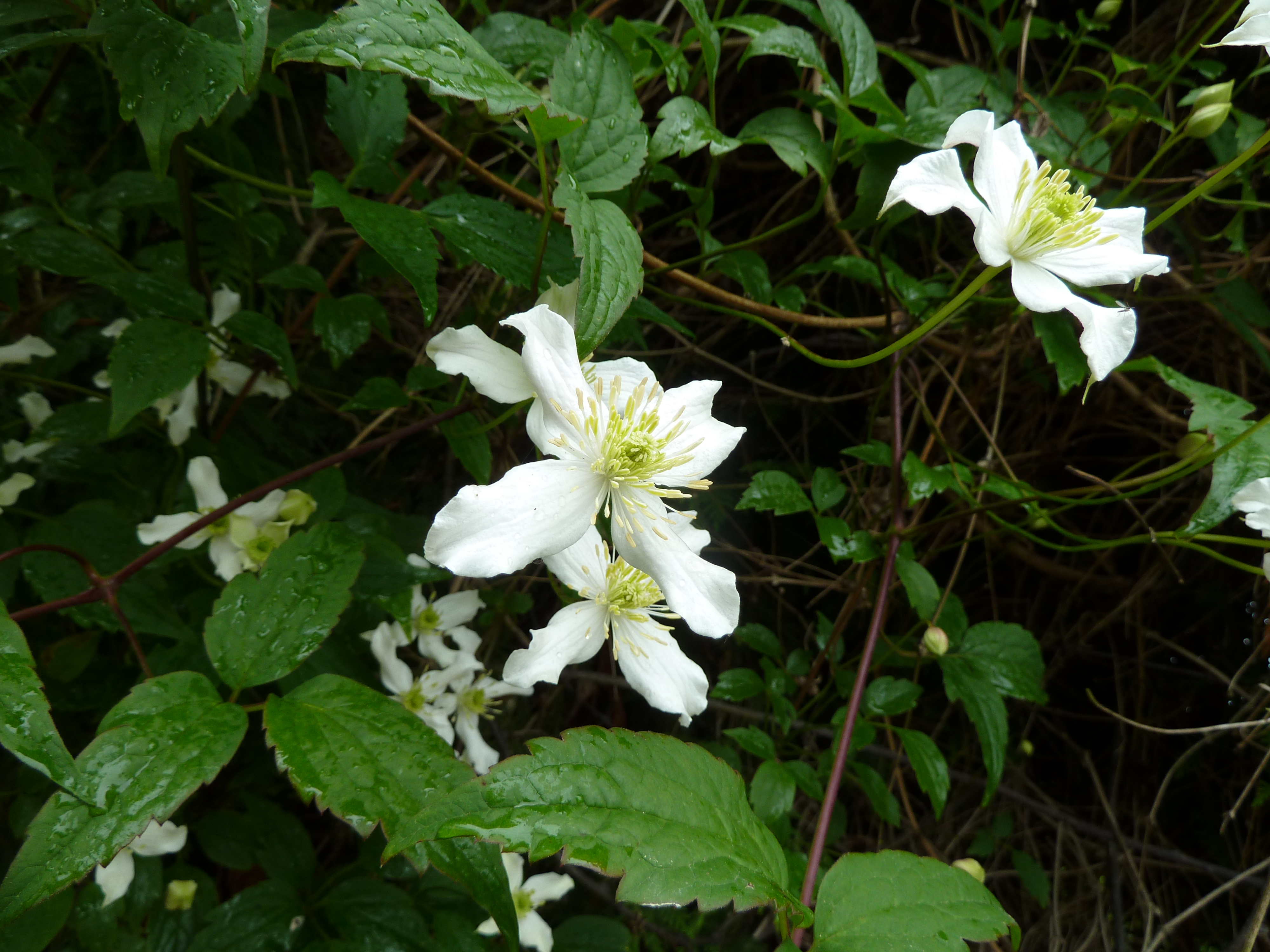 Clematis montana 'Wilsonii' at UBC Botanical Garden. The garden has several climbers